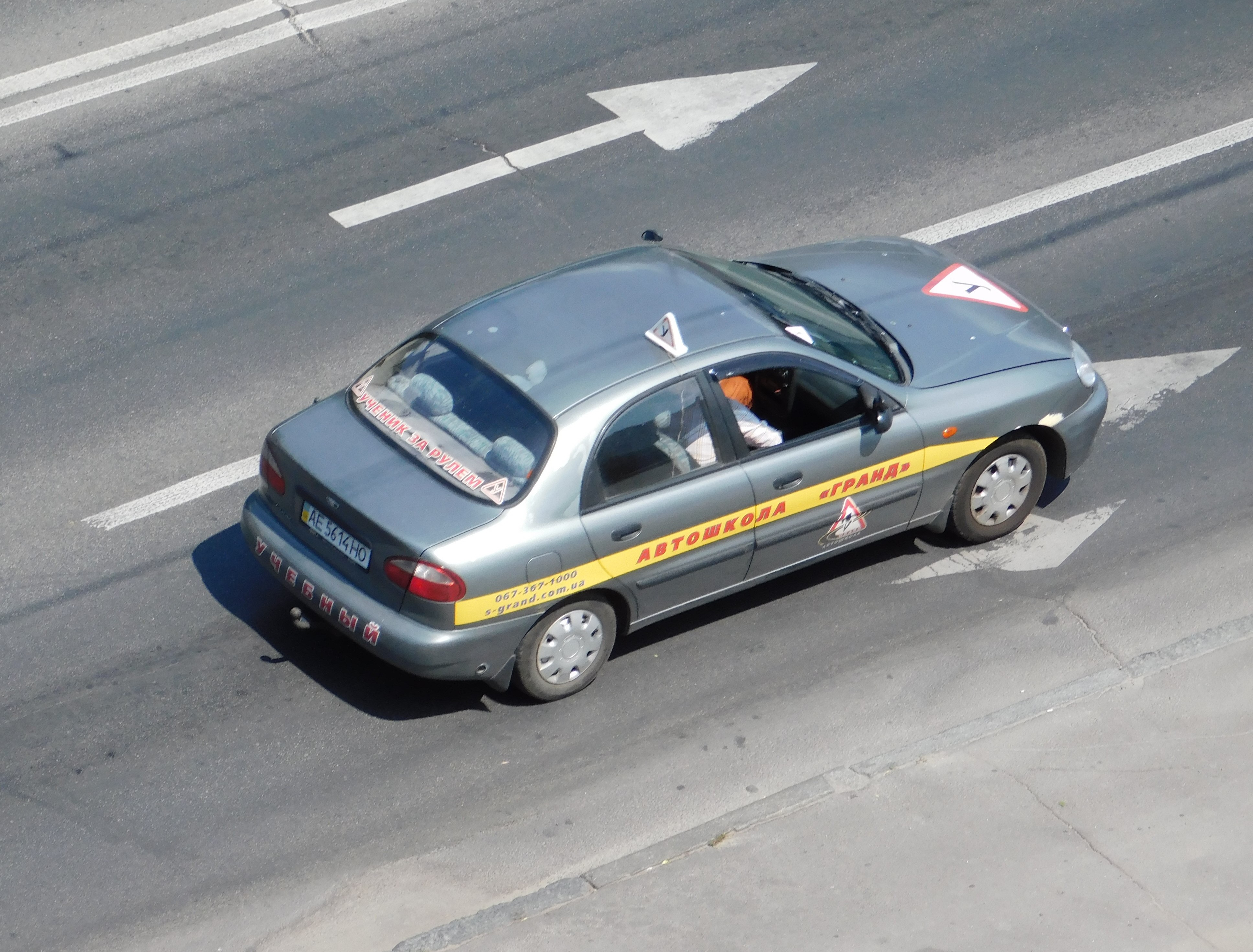 Daewoo Lanos autoschool, Dnipro, Ukraine; 24.07.2019